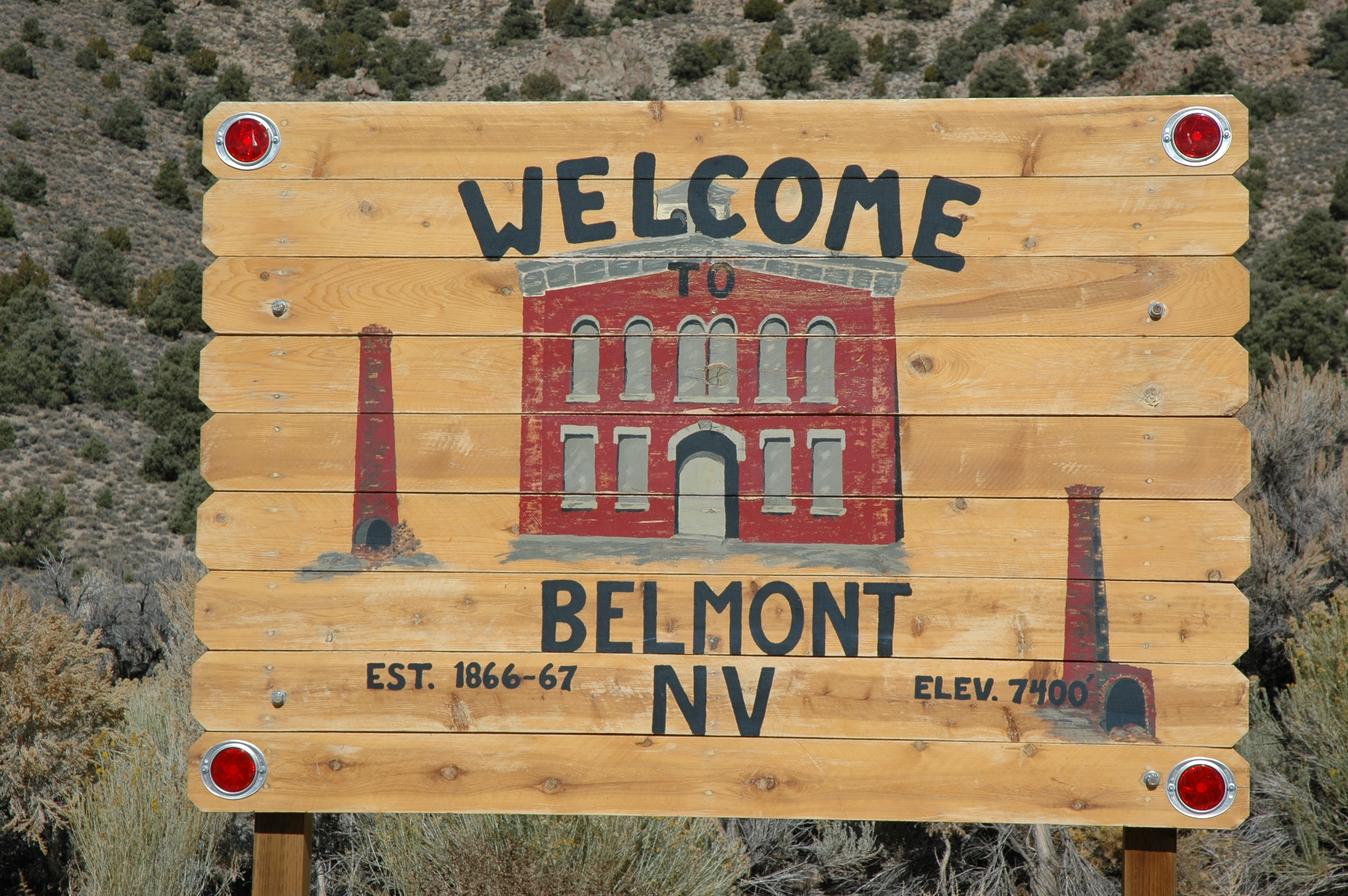 Welcome sign at the entrance to Belmont